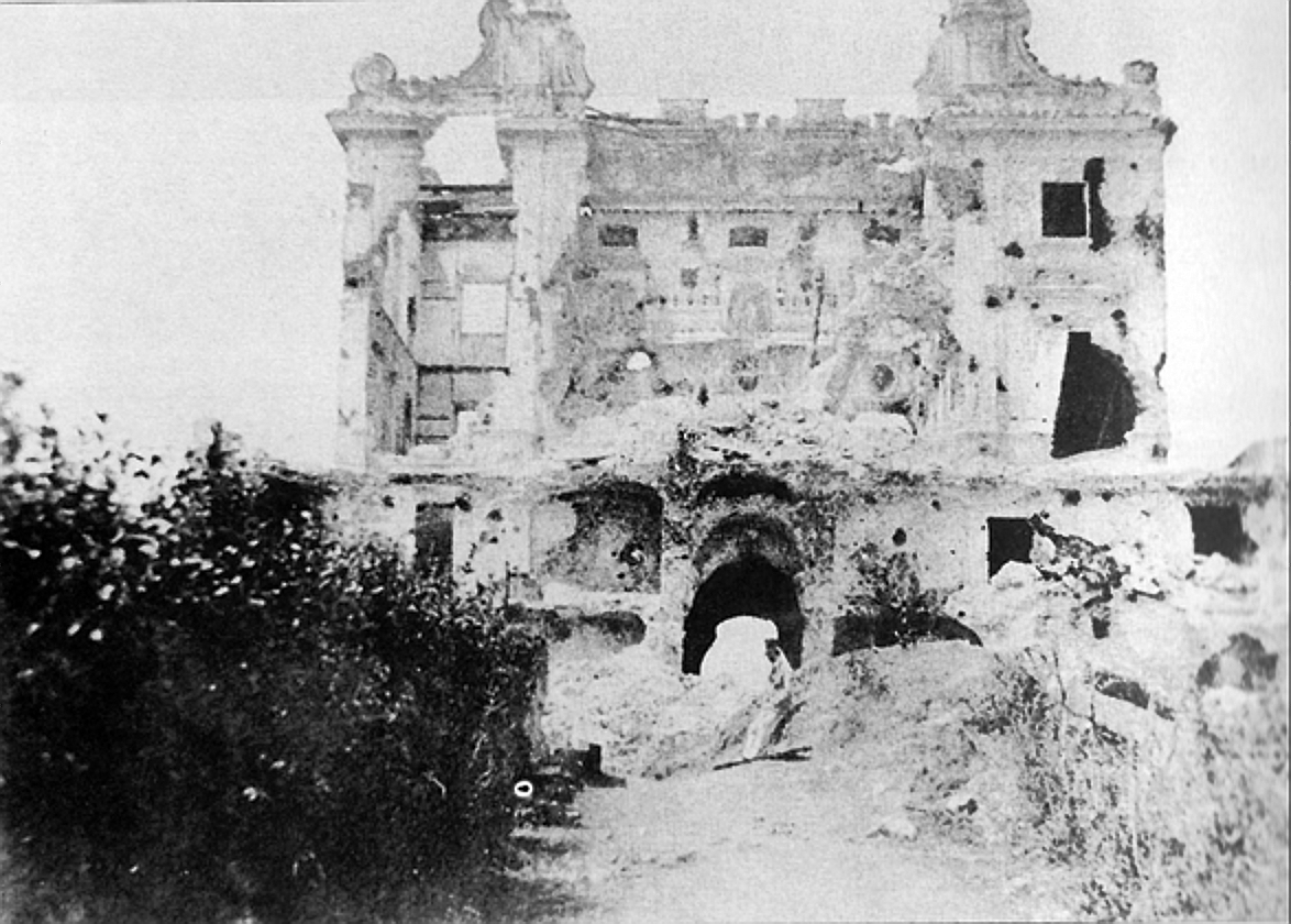 Roma - the house "Casino dei quattro venti" after garibaldinian battle